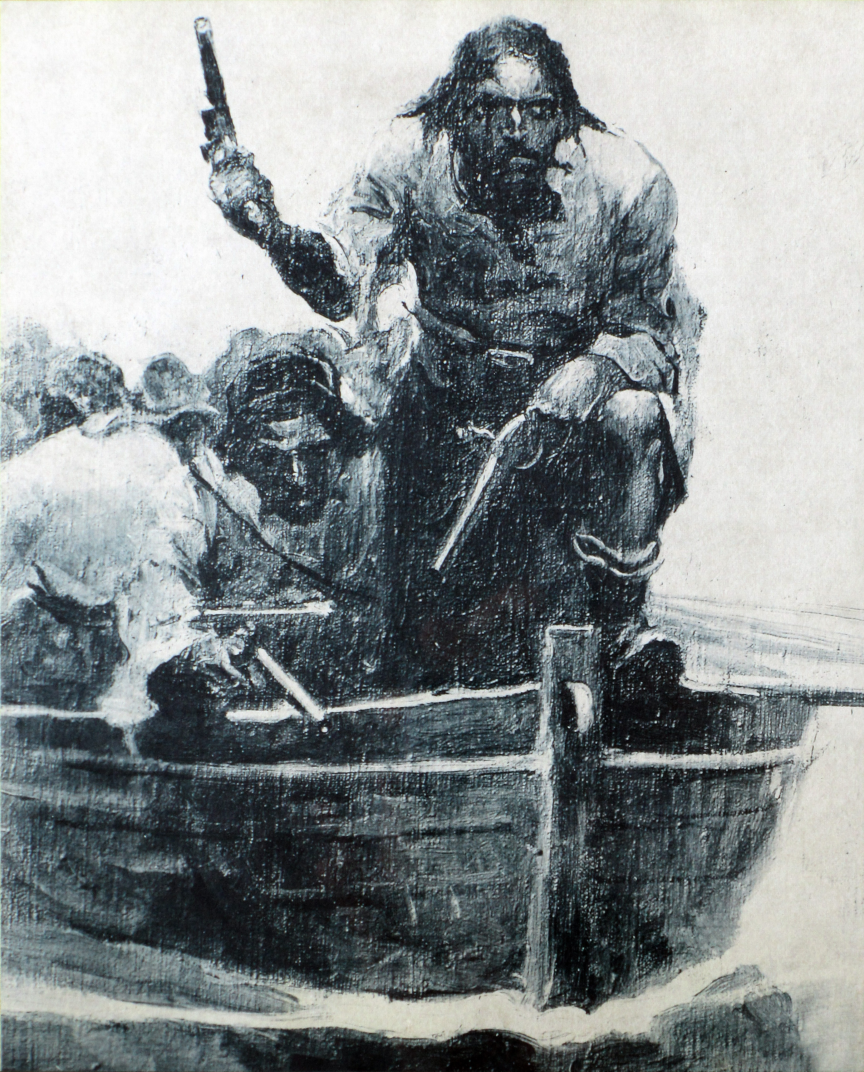 Blackbeard Approaching: Blackbeard and his crew approach in their longboats. This art was commissioned for Paine's serialized work on Blackbeard,[1] and published in: Paine, Ralph Delahaye (1922) "The Quest For Pirates' Gold" in Blackbeard, Buccaneer, Pennsylvania, United States: The Penn Publishing Company, pp. p. 309 Retrieved on 21 April 2010.